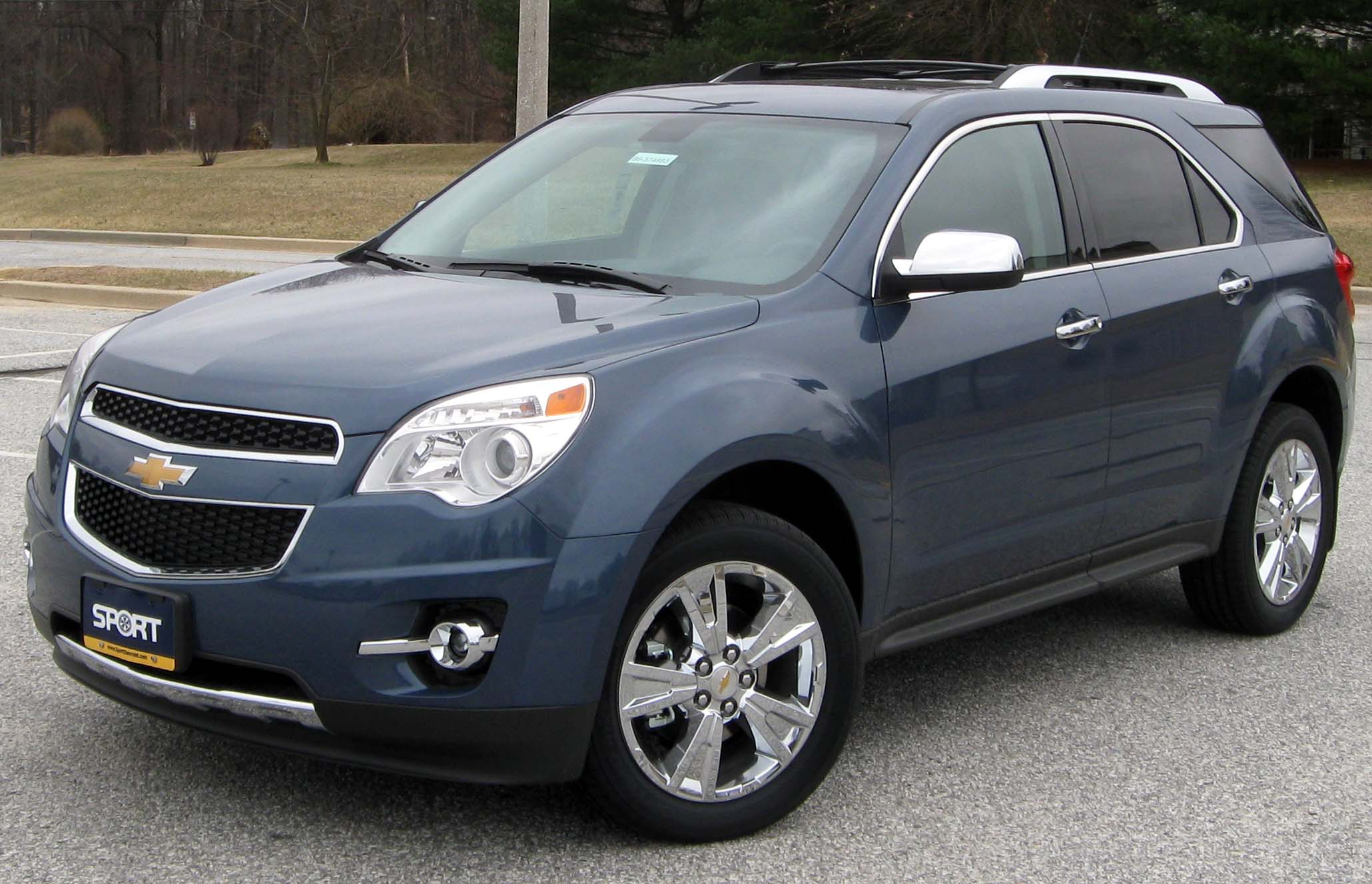 2011 Chevrolet Equinox photographed in Silver Spring, Maryland, USA.